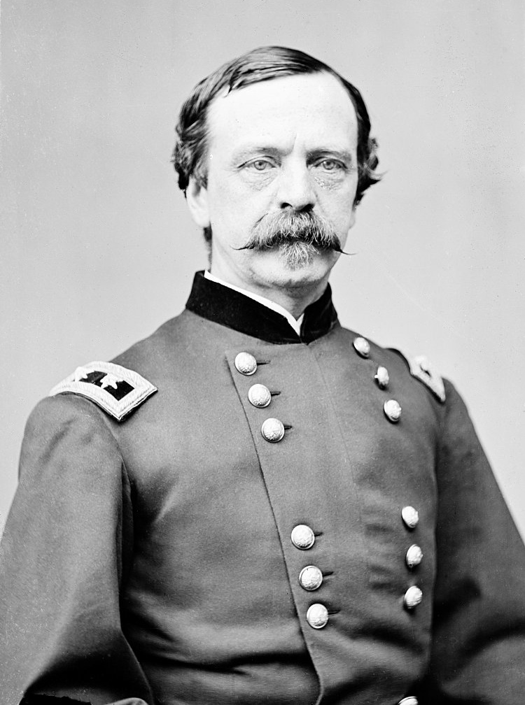 Portrait of Maj. Gen. Daniel E. Sickles, officer of the Federal Army.